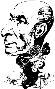 Caricature of Victor Schoelcher